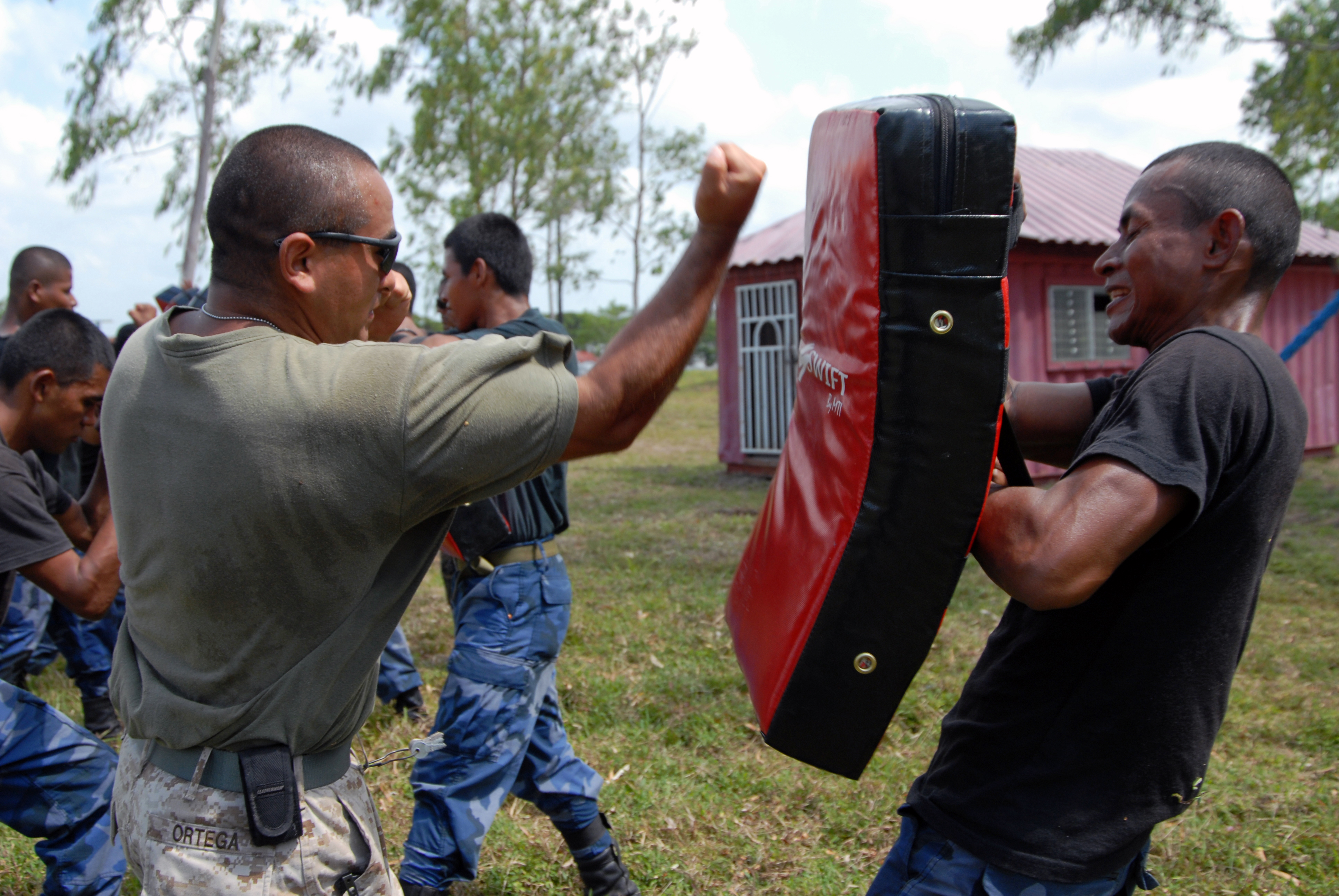 BLUEFIELDS, Nicaragua (March 30, 2009) Cpl. Robert Ortega, a Southern Partnership Station instructor assigned to the Marine Corps Training and Advisory Group, shows a Nicaraguan Marine proper punching technique during a Marine Corps Martial Arts Program class. Southern Partnership Station is a training mission to Central America, South America and the Caribbean Basin. (U.S. Navy photo by Mass Communication Specialist 1st Class Matthew Olay/Released)